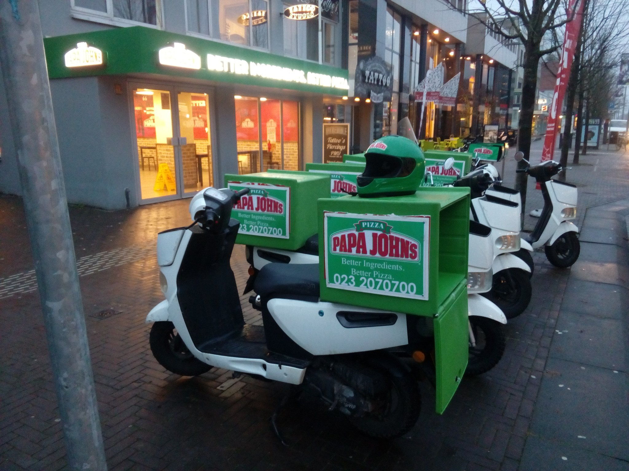 Scooters of a Papa John's Pizza store in Hoofddorp, the Netherlands